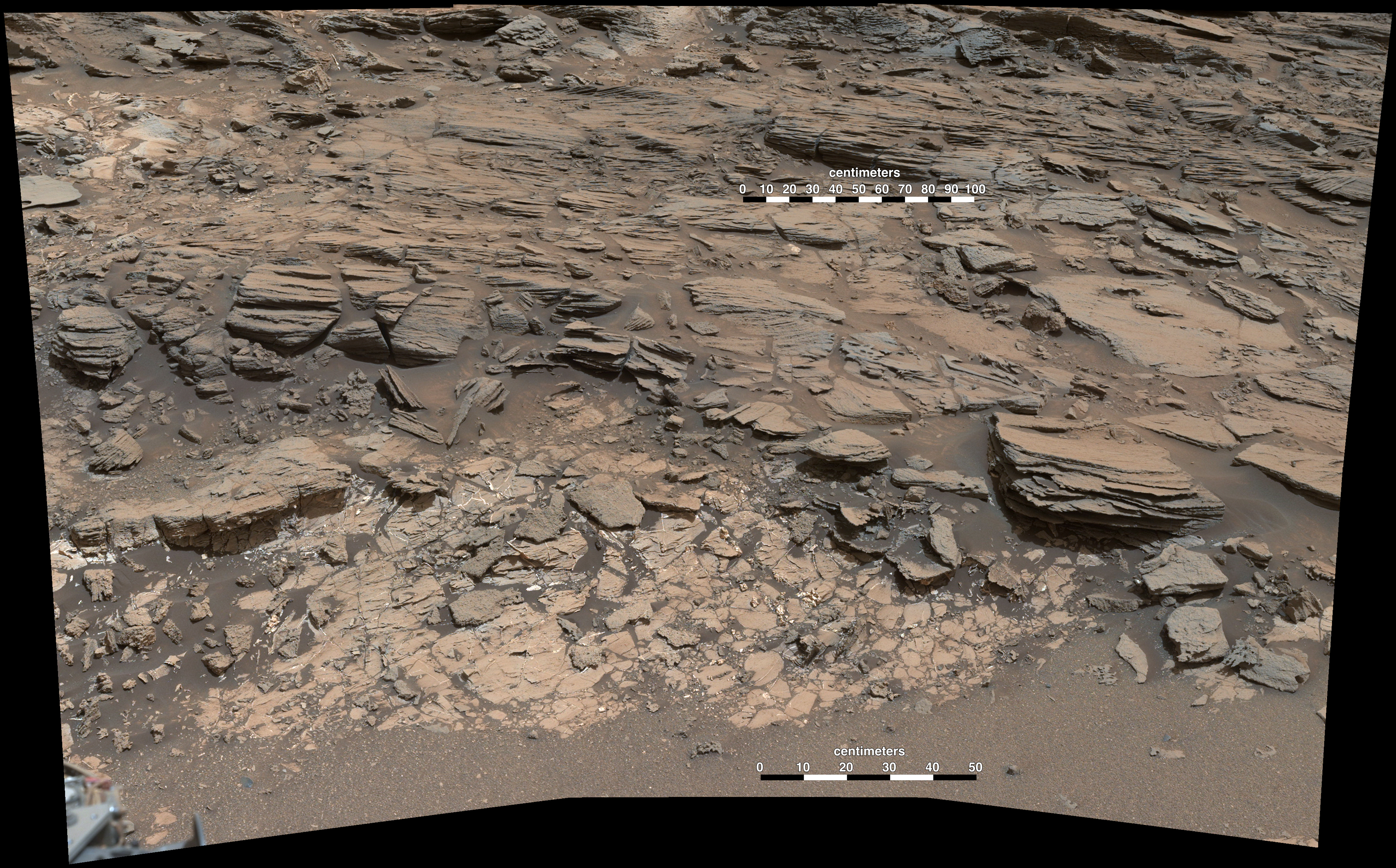 This view from the Mast Camera (Mastcam) on NASA's Curiosity Mars rover shows a site where two different types of bedrock meet on lower Mount Sharp. The scene combines multiple images taken by the left-eye camera of Mastcam on May 25, 2015, during the 995th Martian day, or sol, of Curiosity's work on Mars, in a valley just below "Marias Pass." The color has been approximately white-balanced to resemble how the scene would appear under daytime lighting conditions on Earth. The paler part of the outcrop, in the foreground, is mudstone similar to what Curiosity examined in 2014, and in early 2015, at "Pahrump Hills." The darker, finely bedded bedrock higher in the image and overlying the mudstone stratigraphically is sandstone that the rover team calls the "Stimson" unit. The scene covers an area about 10 feet (3 meters) wide in the foreground. Figure 1 includes scale bars of 50 centimeters (about 20 inches) in the foreground, and 100 centimeters (about 39 inches) in the middle distance.